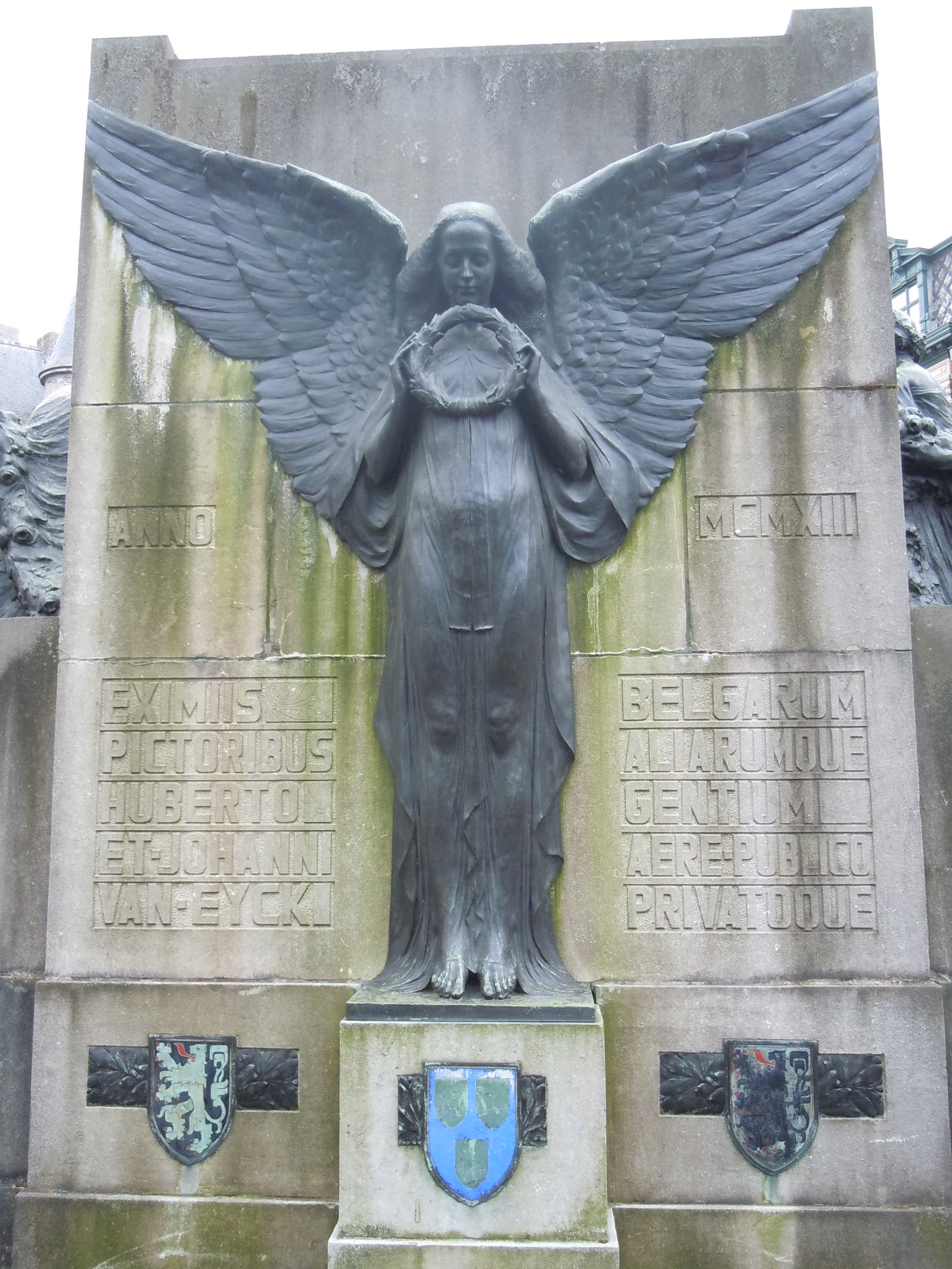 Ghent - Monument in honor of the Van Eyck brothers - backside: Genius of painting - Sculptor: Geo Verbanck